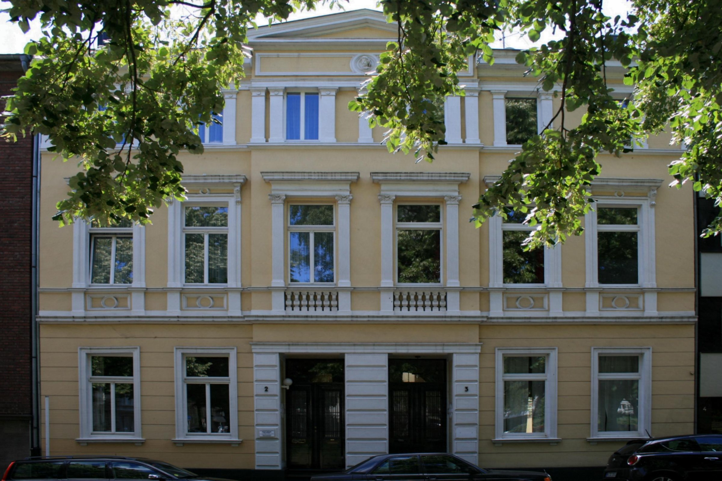 Cultural heritage monument No. A 052 in Mönchengladbach